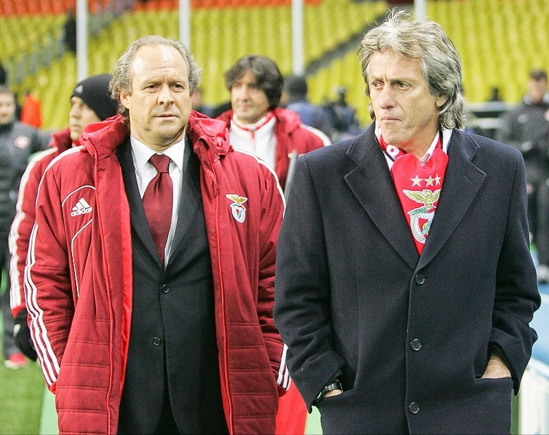 António Carraça and Jorge Jesus